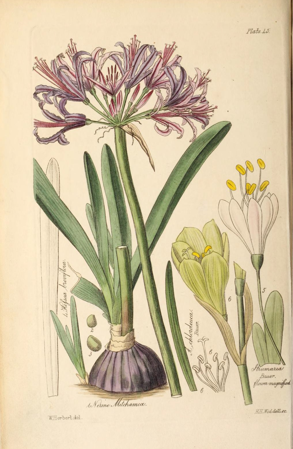 Frontispiece to William Herbert's Amaryllidaceae Shows variety of amaryllids, including one of his hybrid nerines (N. mitchamiae). Hessea, Strumaria (Strumaria truncata) etc. For legend, see Plate XLIV